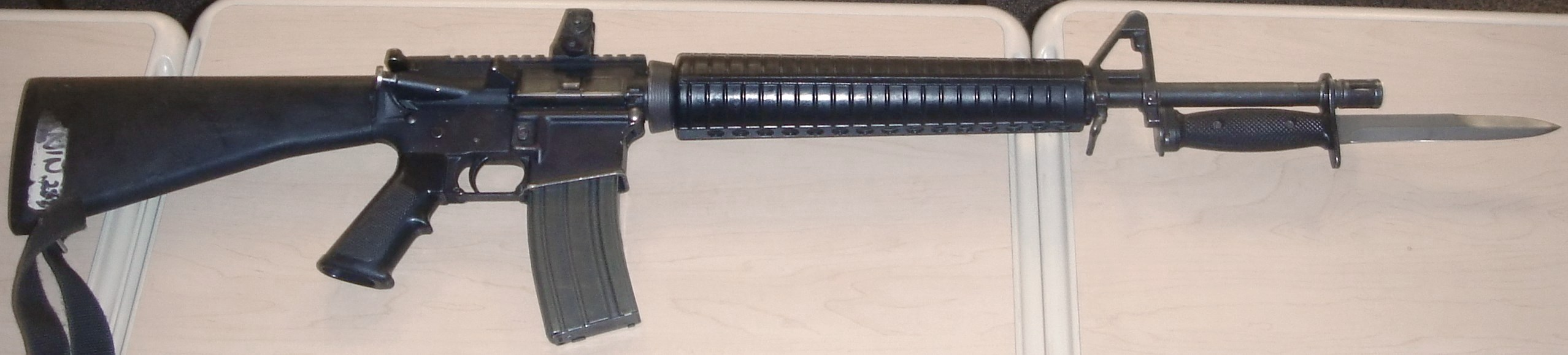 C7A1 Rifle outfitted with Iron Sights